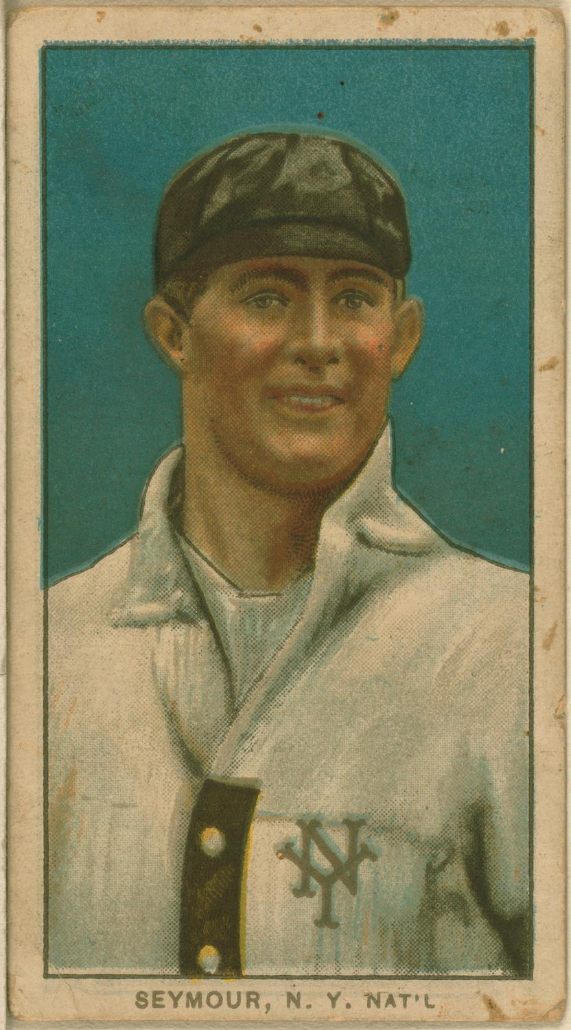 Baseball card of James Bentley "Cy" Seymour